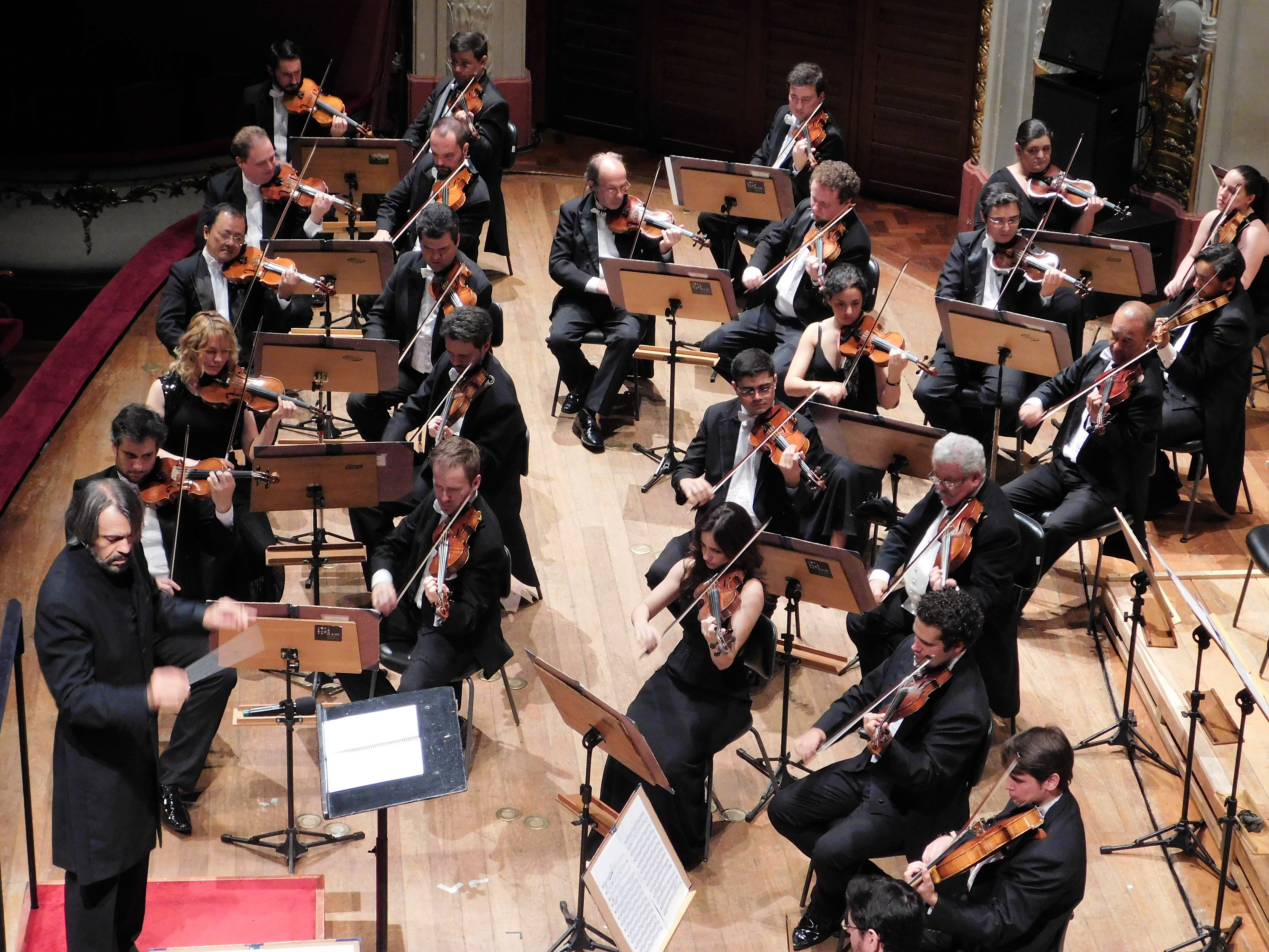 A Orquestra Sinfônica Municipal de São Paulo, também conhecida como OSM, é uma orquestra sinfônica sediada na cidade de São Paulo e um dos corpos artísticos do Theatro Municipal de São Paulo. Atualmente sob regência de Roberto Minczuk, atua na programação lírica de óperas e concertos, muitas vezes apresentando-se com solistas convidados e também com os demais corpos artísticos do Theatro Municipal, como o Coro Lírico Municipal de São Paulo e o Balé da Cidade de São Paulo.